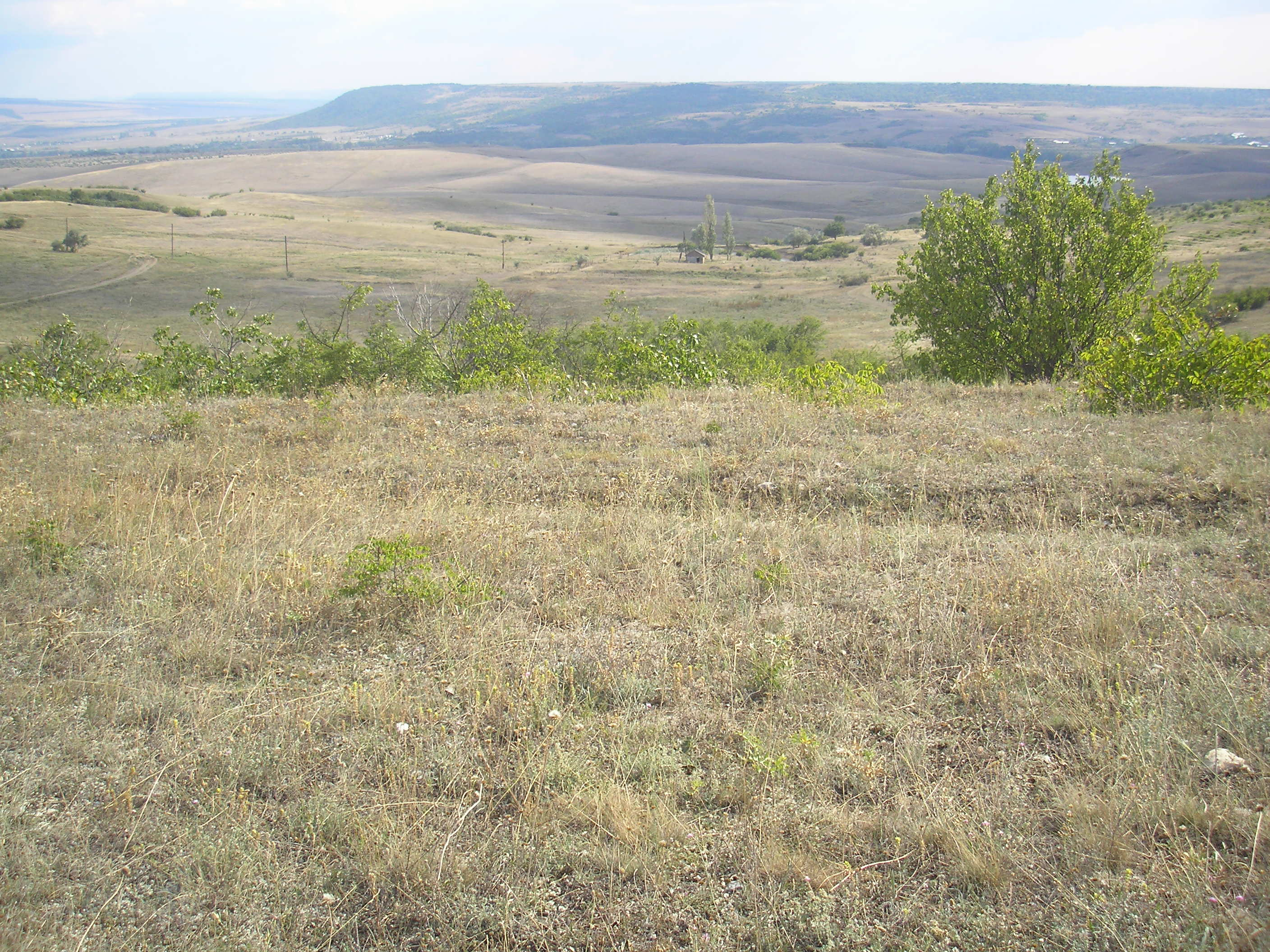 The tract Acheut. The third ridge, the Crimean mountains